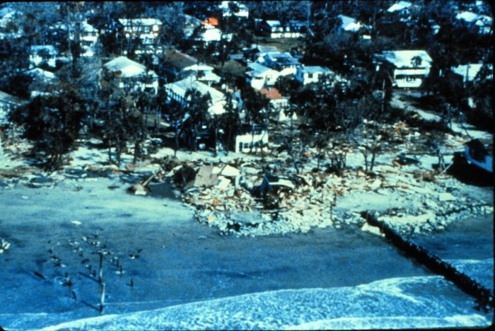 Damage to beach front property after Hurricane Hugo